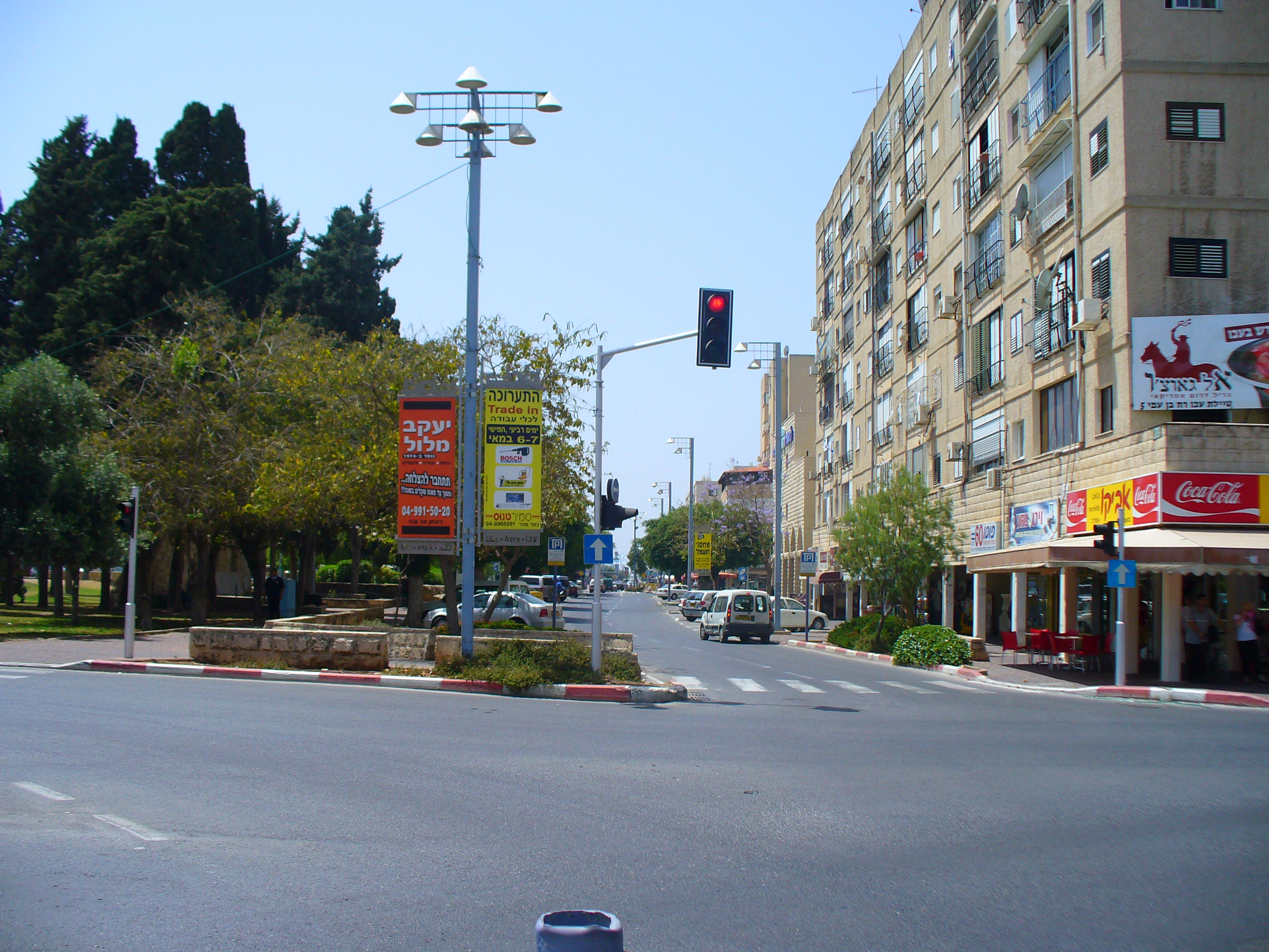 Ben Ami st. Acre, Israel, at Ben Ami & Derech Ha'arba'a street corner